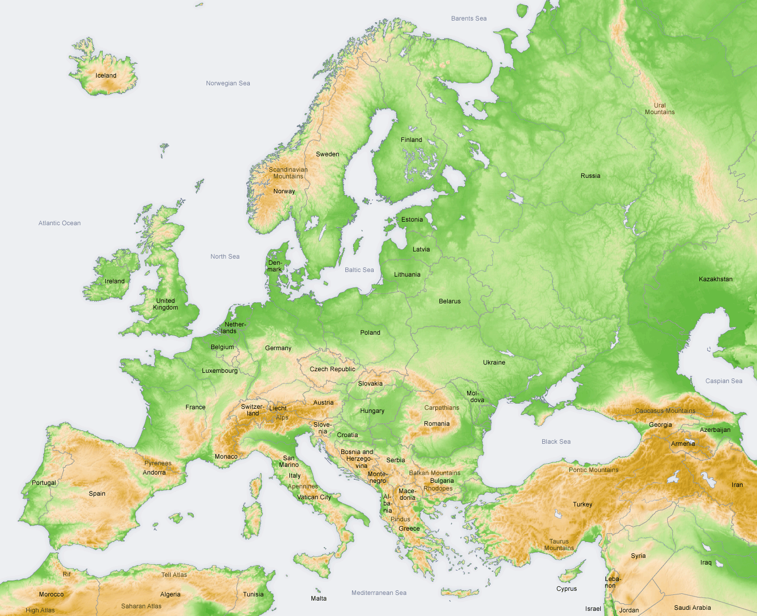 Topography in Europe, map in English.